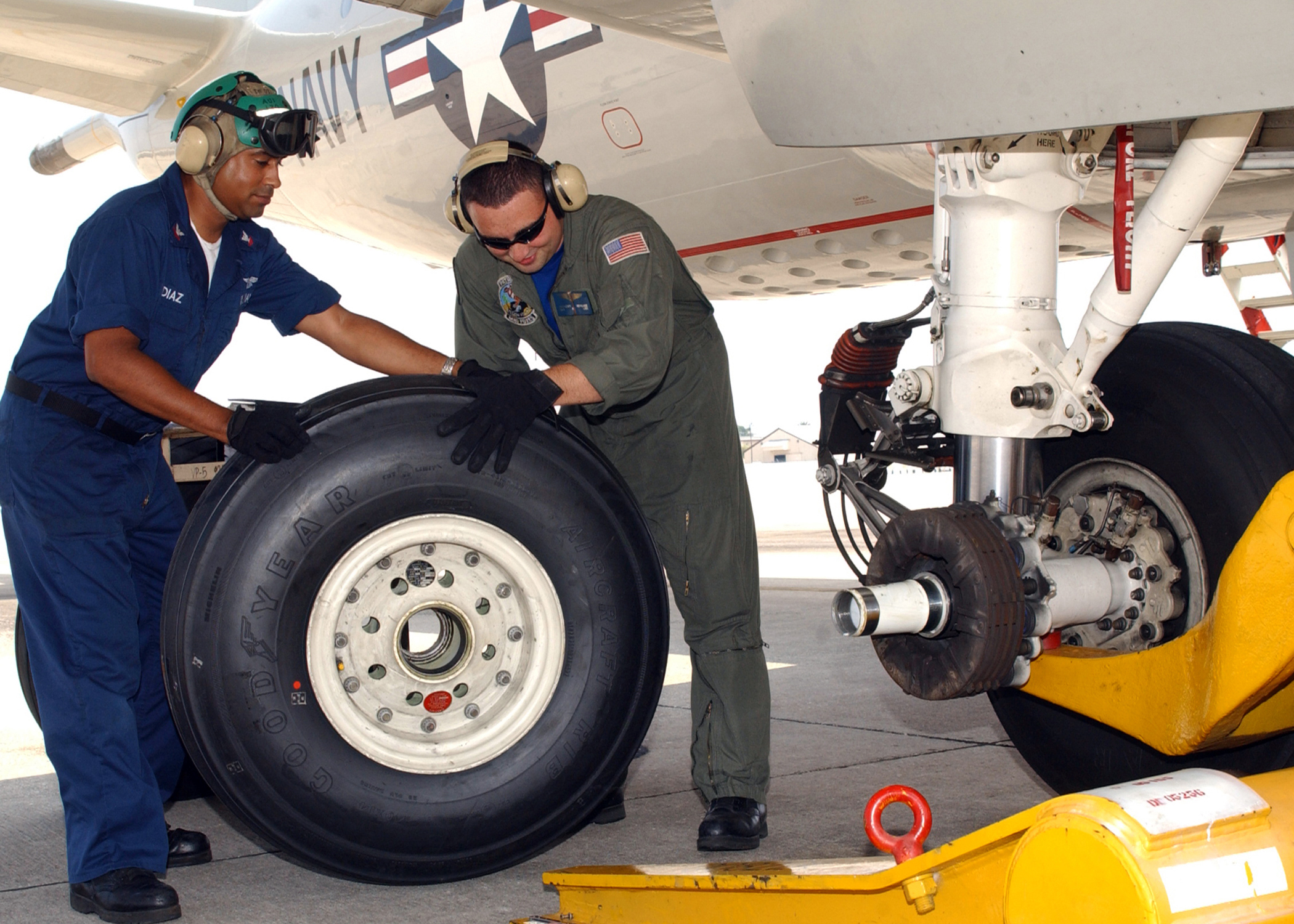 Jacksonville, Fla. (Aug. 10, 2005) - Aviation Structural Mechanic 1st Class Anthony Versage, right, and Aviation Structural Mechanic 2nd Class Ramon Diaz replace a main landing gear tire on one of their squadron's P-3C Orion aircraft. Versage and Diaz are assigned to the "Mad Foxes" of Patrol Squadron Five (VP-5). On the lower fuselage can be seen the belly-loaded sonobuoy chutes (outlined in red) peculiar to the P-3C (all variants) and P-3F. U.S. Navy photo by Photographer's Mate 2nd Class Susan Cornell (RELEASED)